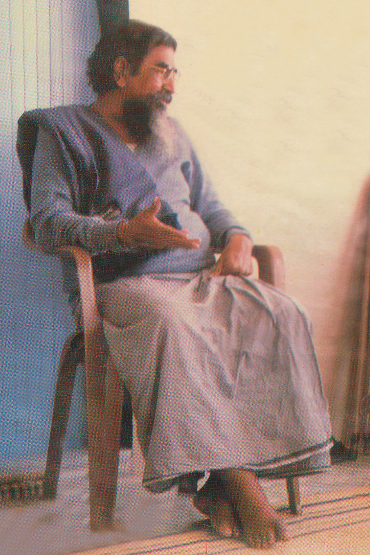 Perunchithiranar, 20th century poet of Tamil Nadu in his home.His writings are nationalized by Govt of Tamil Nadu.